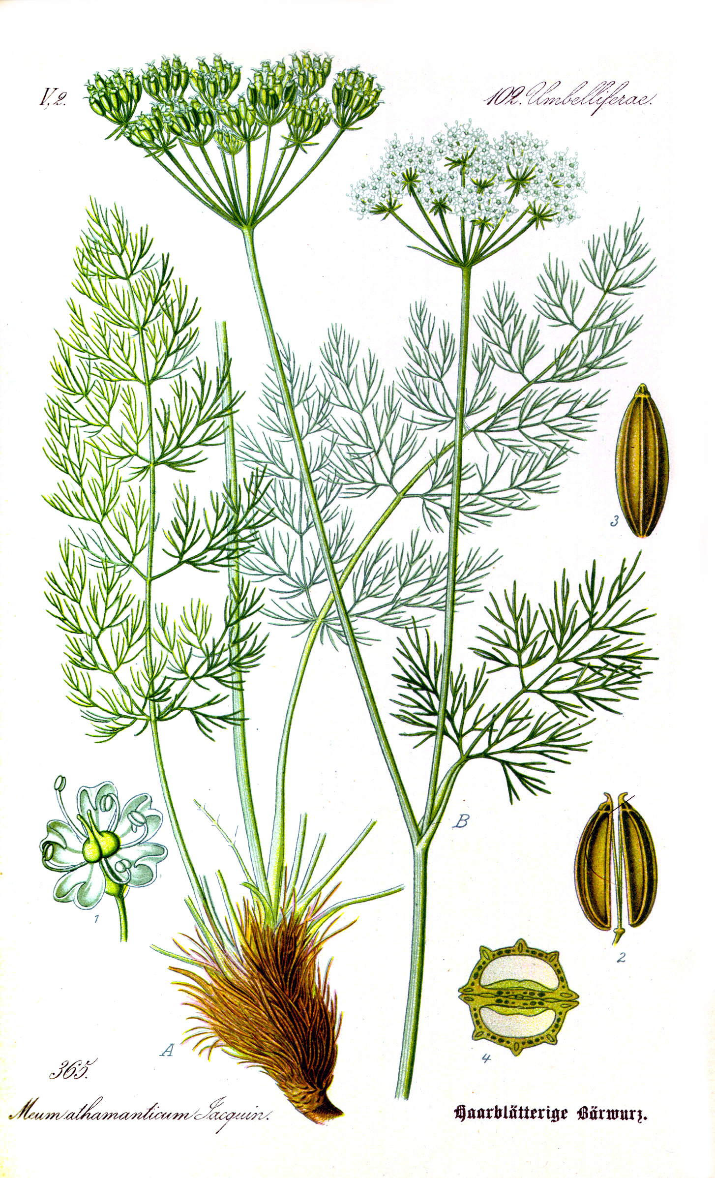 Spignel